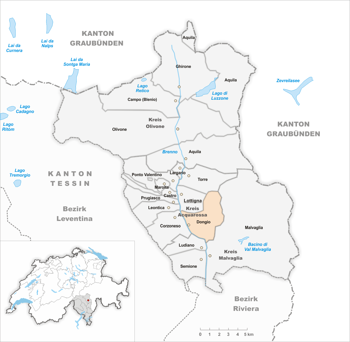 Municipality Dongio